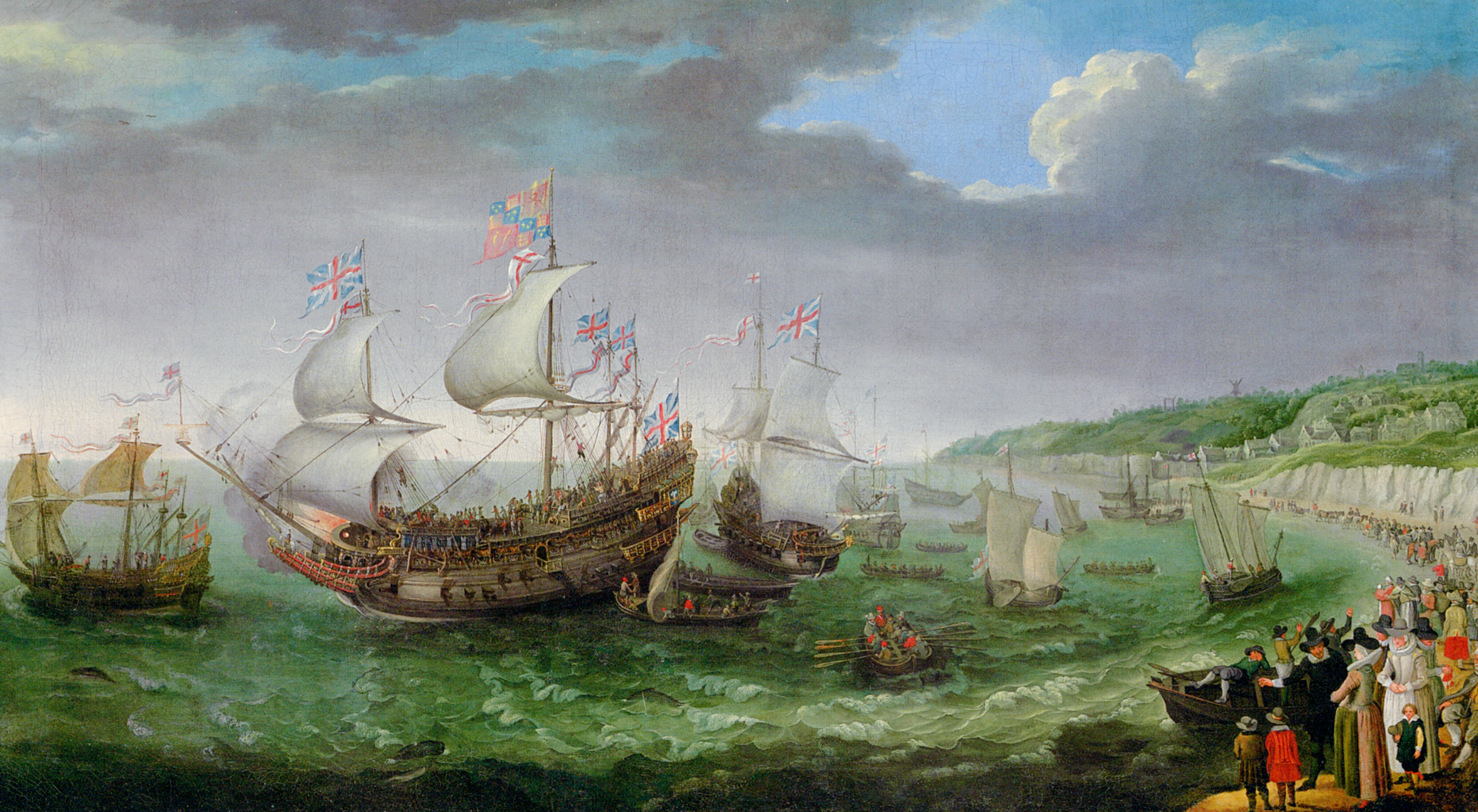 The Embarkation of the Elector Palantine